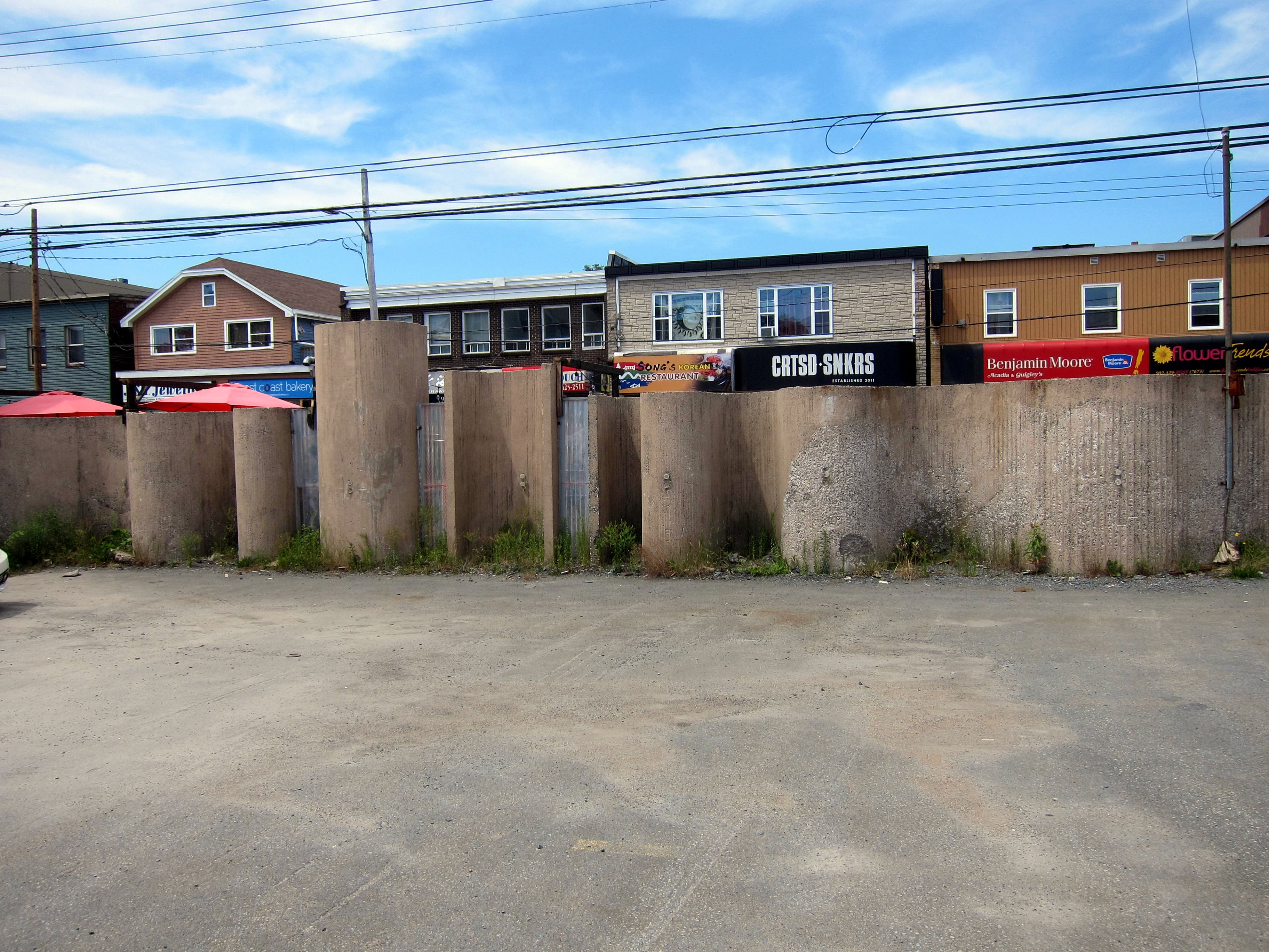 "Life" - sculpture on Quinpool Road in Halifax, Nova Scotia. By Josef Drapell, 1968.